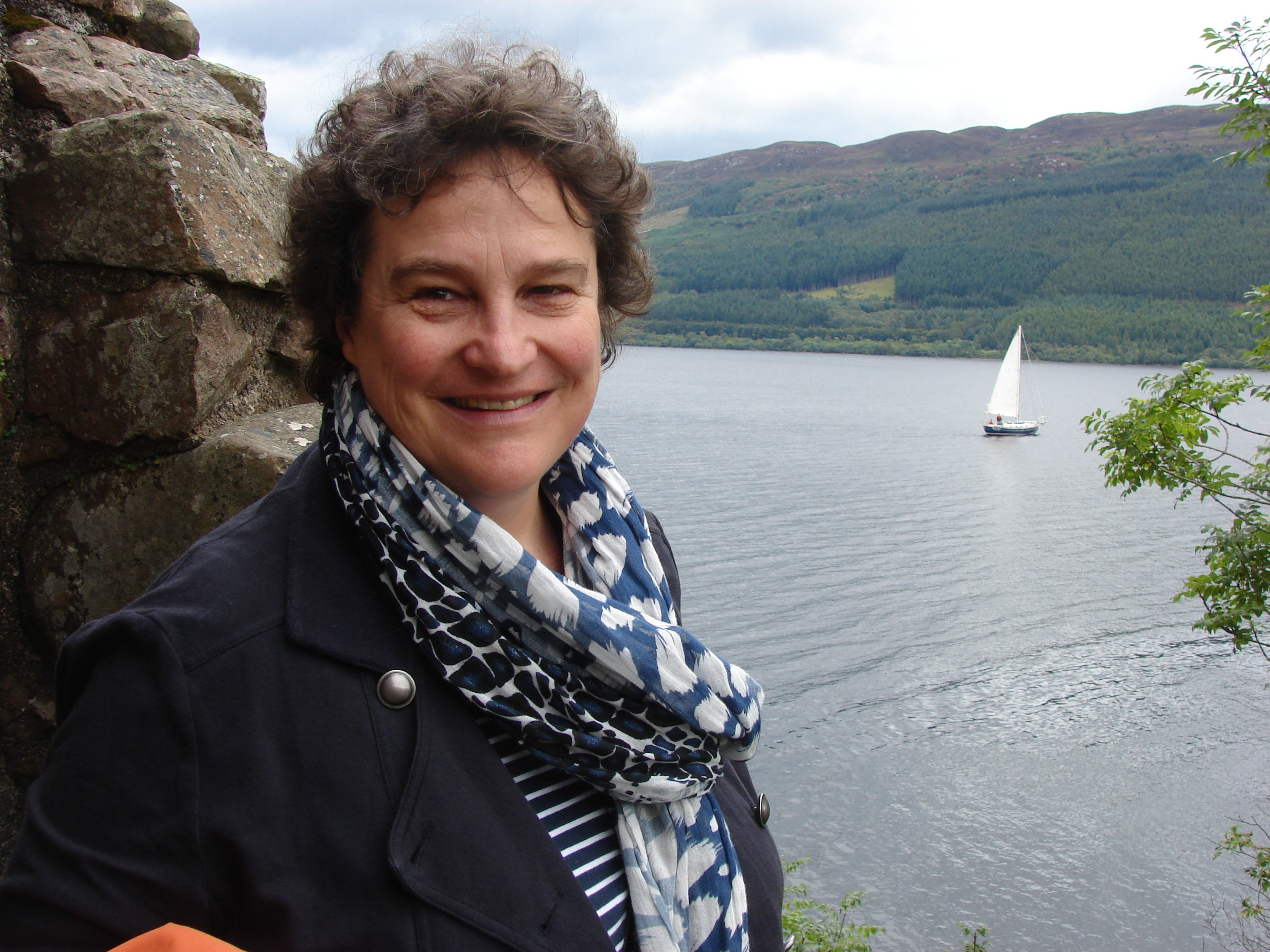 Photograph